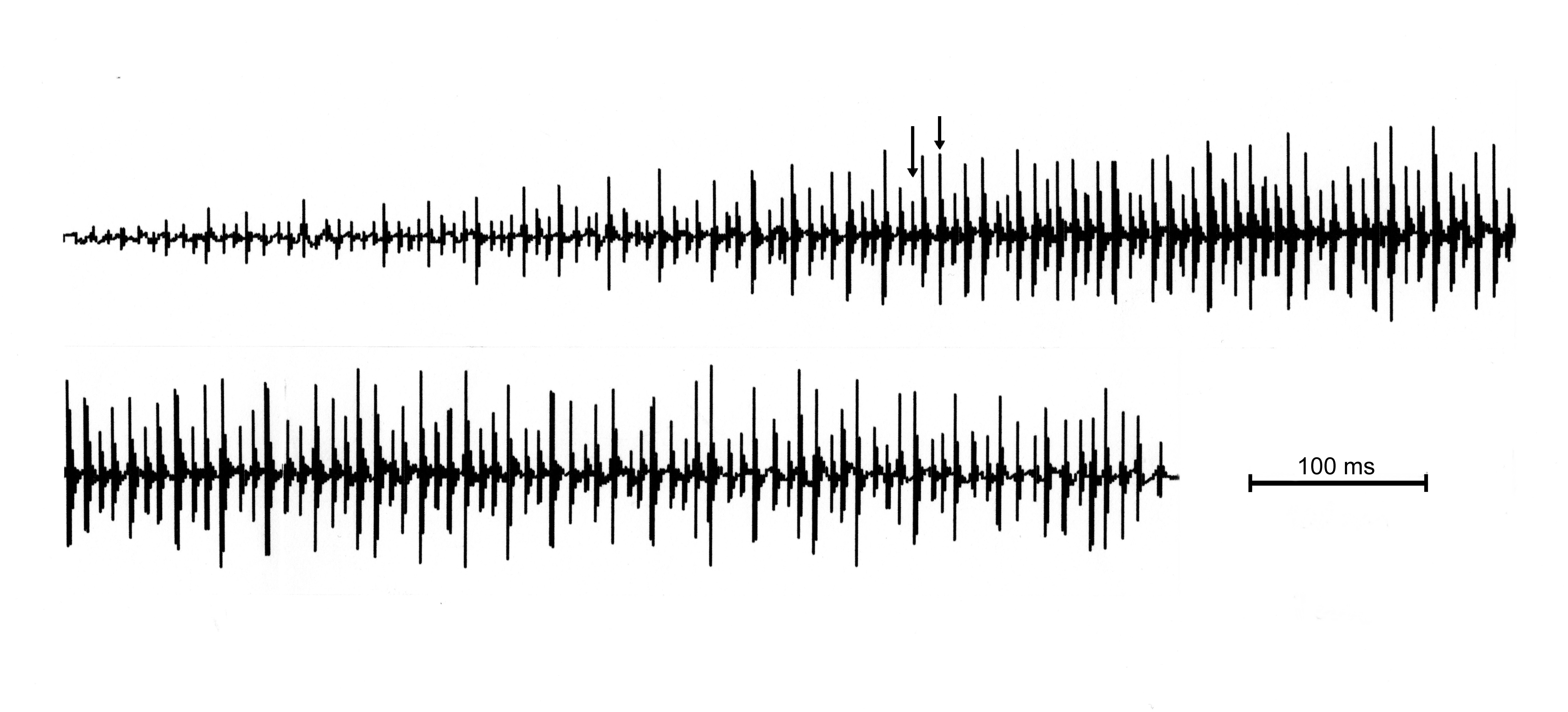 Sound image (oscillogram) of a mating call at 25.5 °C water temperature and 23 °C air temperature. The two arrows mark a pulse group with three pulses.